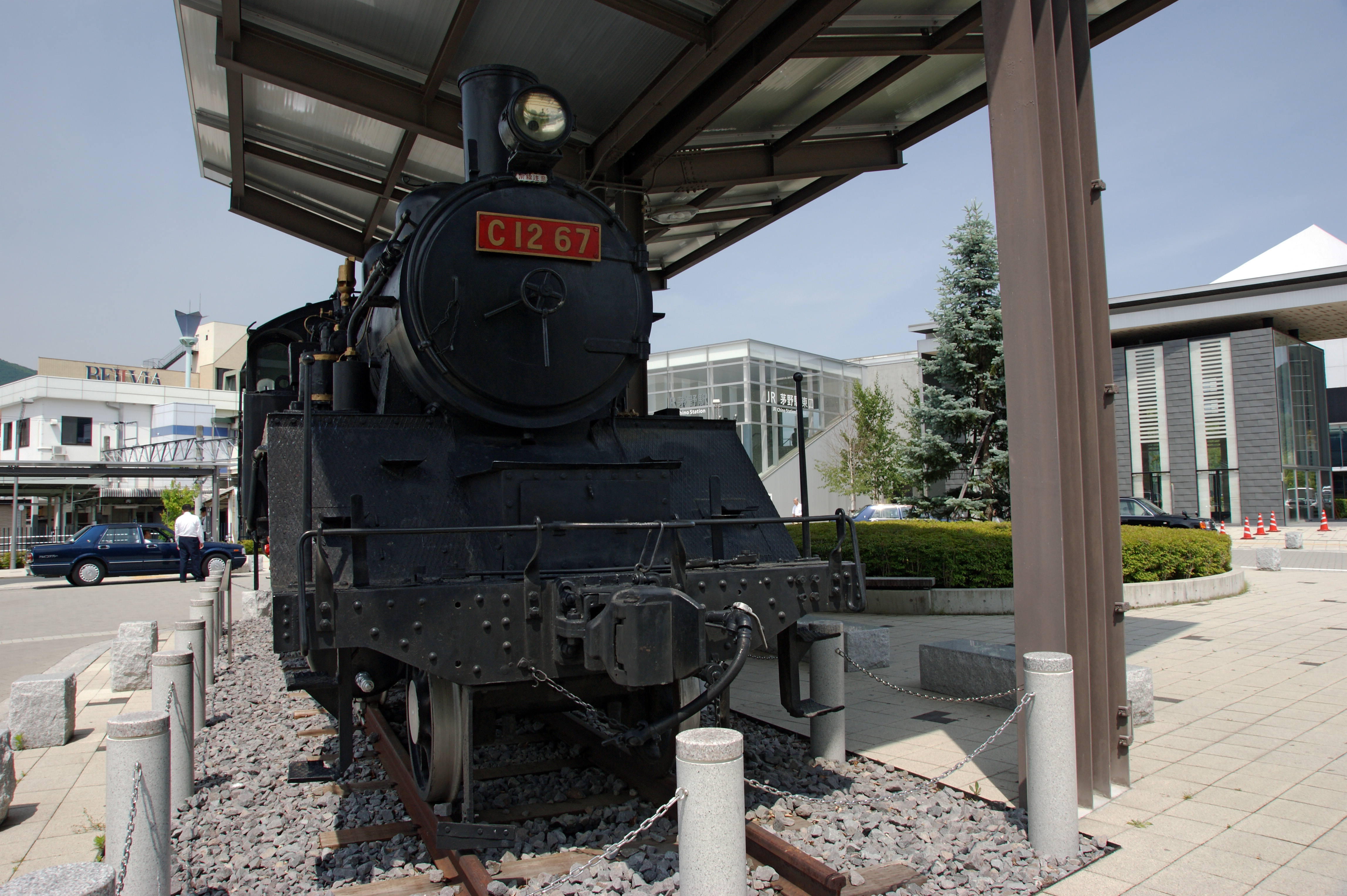 Chino Station, Chino, Nagano prefecture, Japan